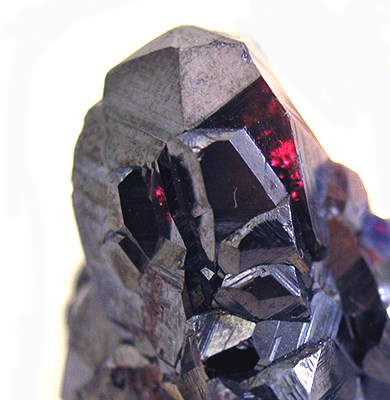 Pyrargyrite Locality: Samson Mine, St Andreasberg, St Andreasberg District, Harz Mts, Lower Saxony, Germany (Locality at ) Size: miniature, 3.3 x 3 x 2.6 cm Pyrargyrite (gemmy!) This stunning miniature is bright and lustrous, absolutely first-rate quality for what it is. It is certainly over 125 years old, if not more. It is competition-quality, meaning it has excellent aesthetics compared to its peers, and is displayable with ease. With backlighting, you can see that it is gemmy red inside!